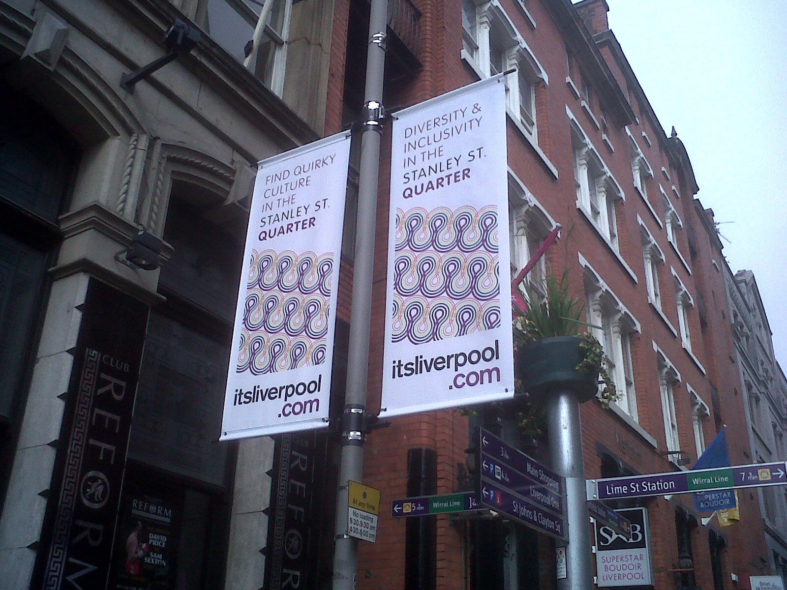 New lamppost banners designed by Bollandlowe welcome people to Liverpool's Stanley Street gay quarter (May 2012).